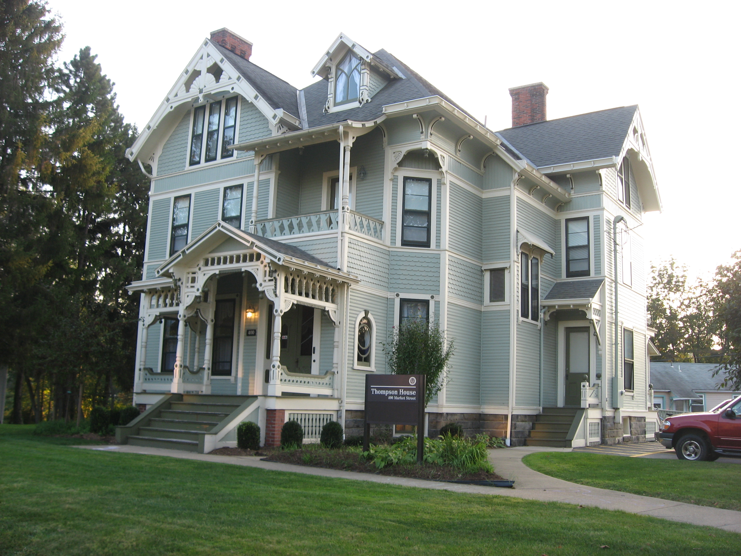 Front of the S.R. Thompson House, located at 400 Market Street Route 956 in southern New Wilmington, Pennsylvania, United States. Built by S.R. Thompson, an early professor at Westminster College, it is now a Westminster dormitory. Built in the Queen Anne style in 1884, the house is listed on the National Register of Historic Places.